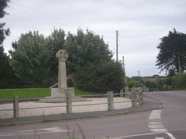 War Memorial at Mawgan island